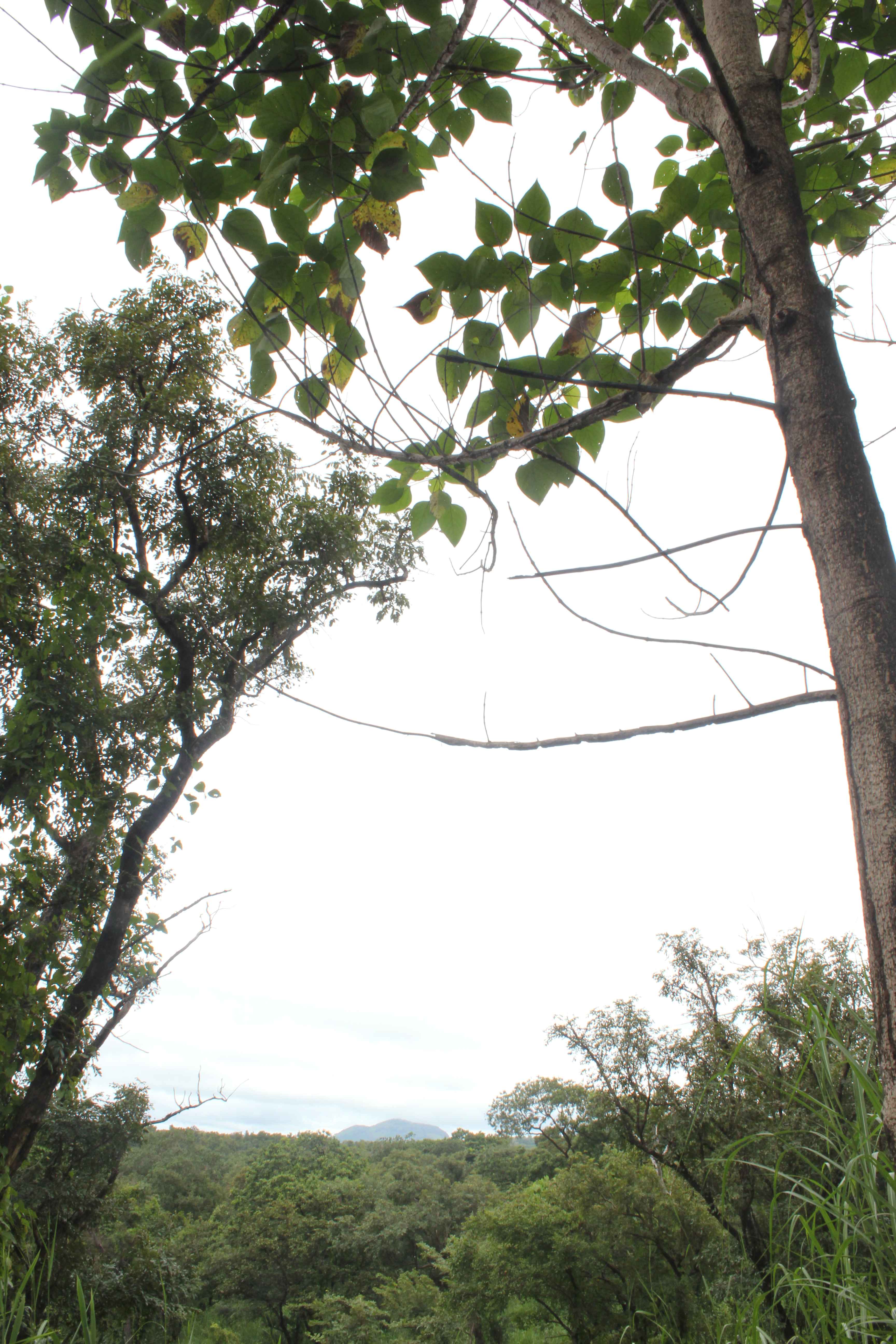 The mountain that gave the Outamba-Kilimi Park half its name, viewed from Karangia (Hill of Learning)